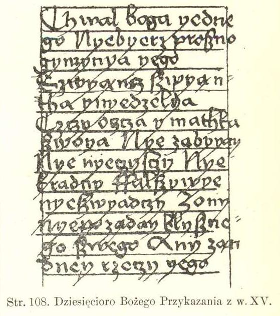 Image from Z. Gloger's "Encyklopedia staropolska"